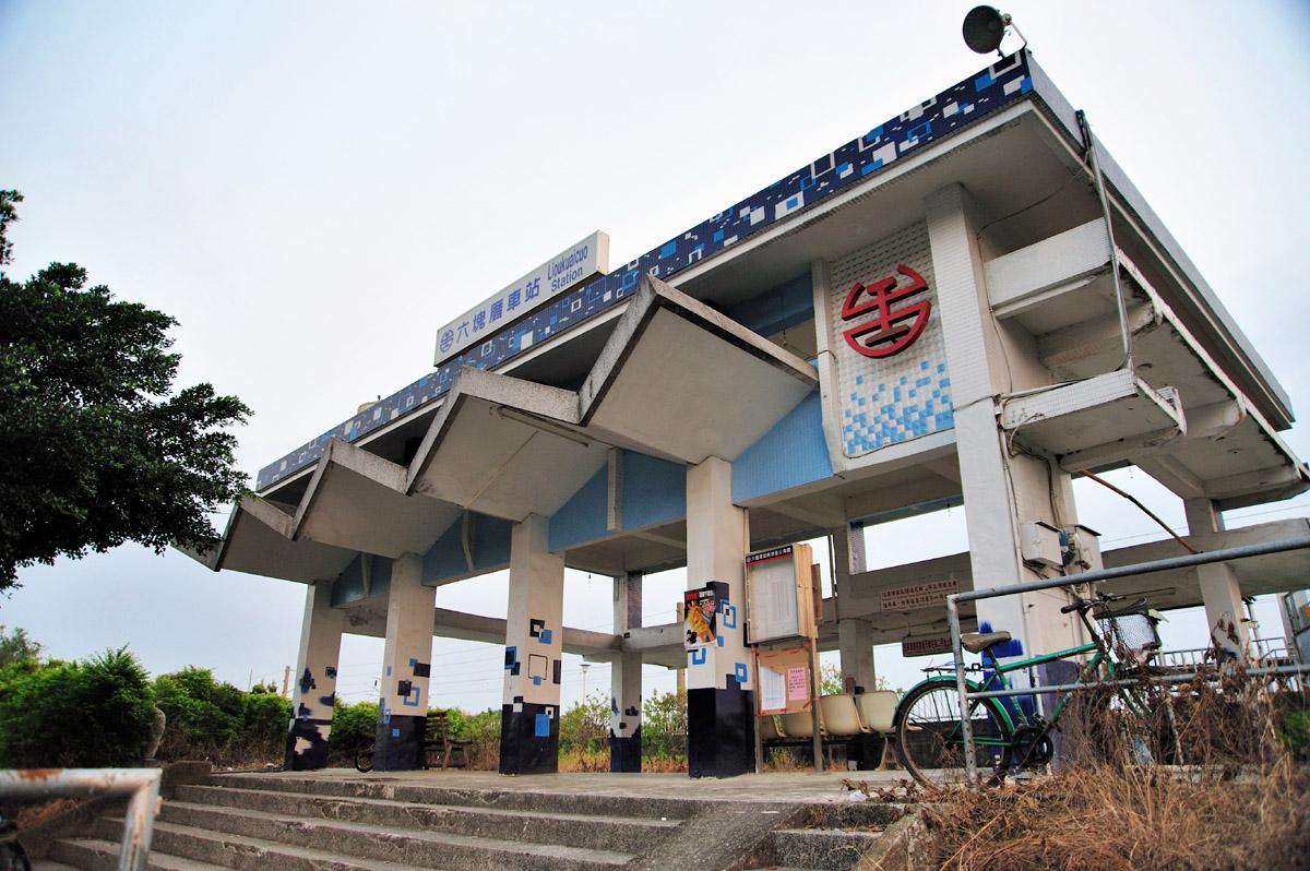 LiouKuaiCuo Station is a unmanned station of TRA PingTung line.